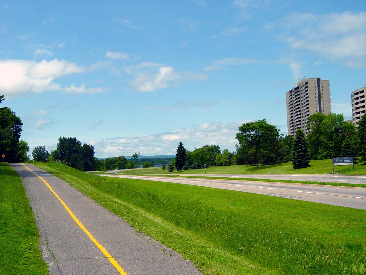 John A Macdonald Parkway in Ottawa